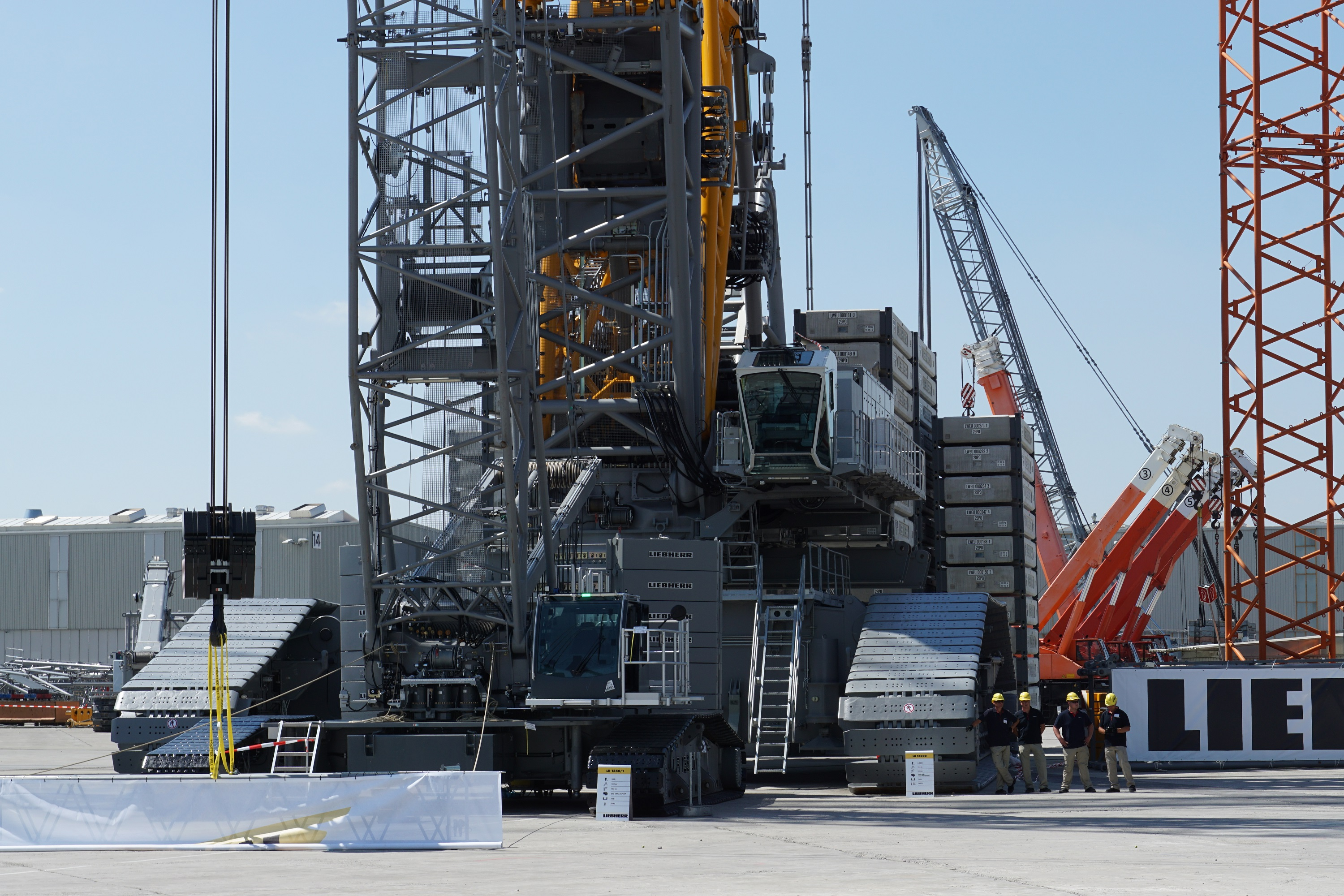 Liebherr LR 13000 (Ehingen, Germany 06.2018)